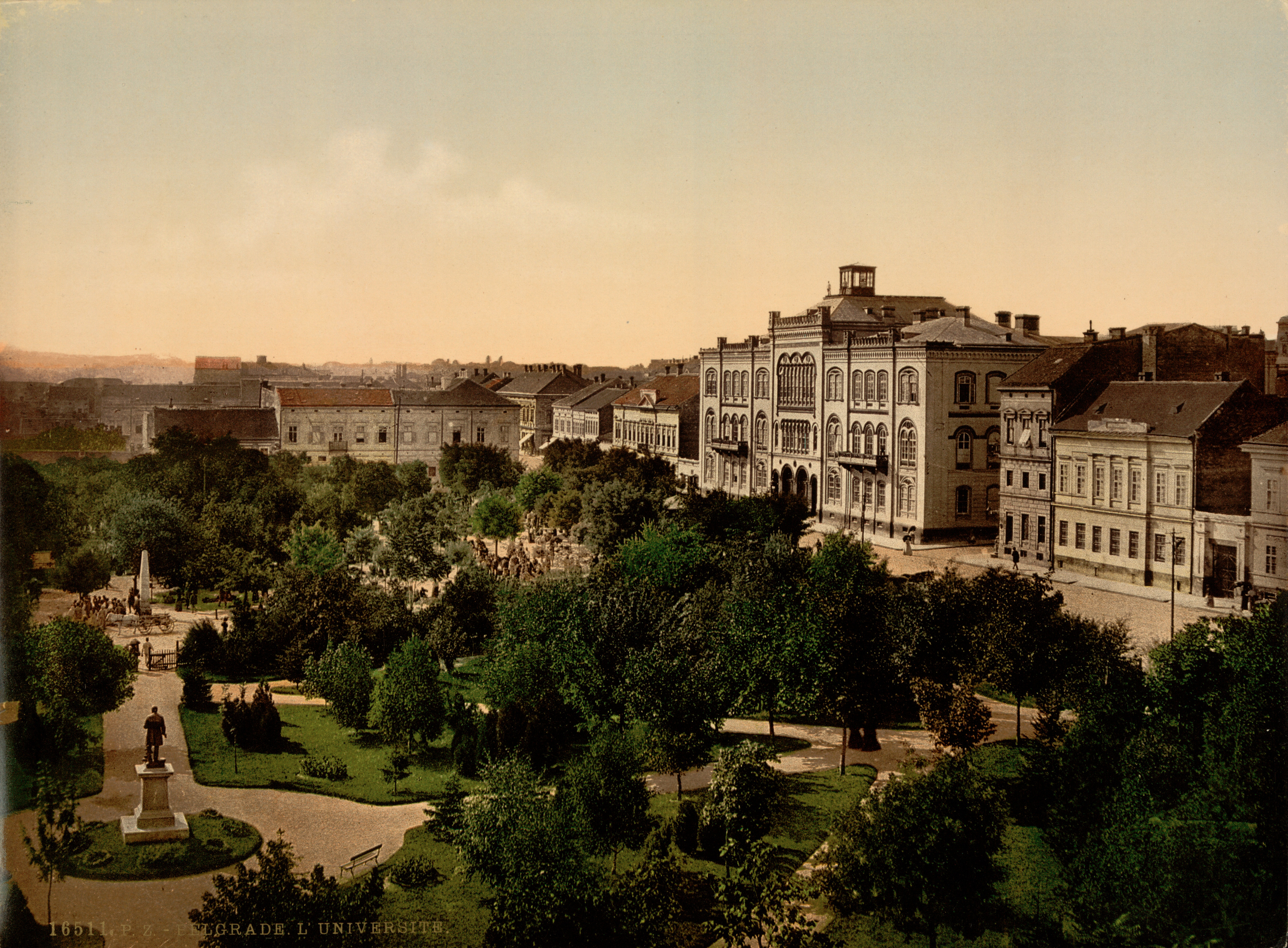 University Buildings, Belgrade, Serbia - 1890